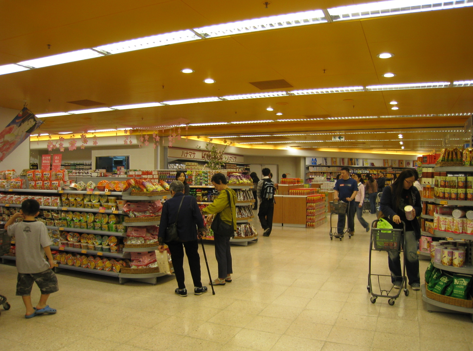 HK East Point City Taste Supermarket Interior